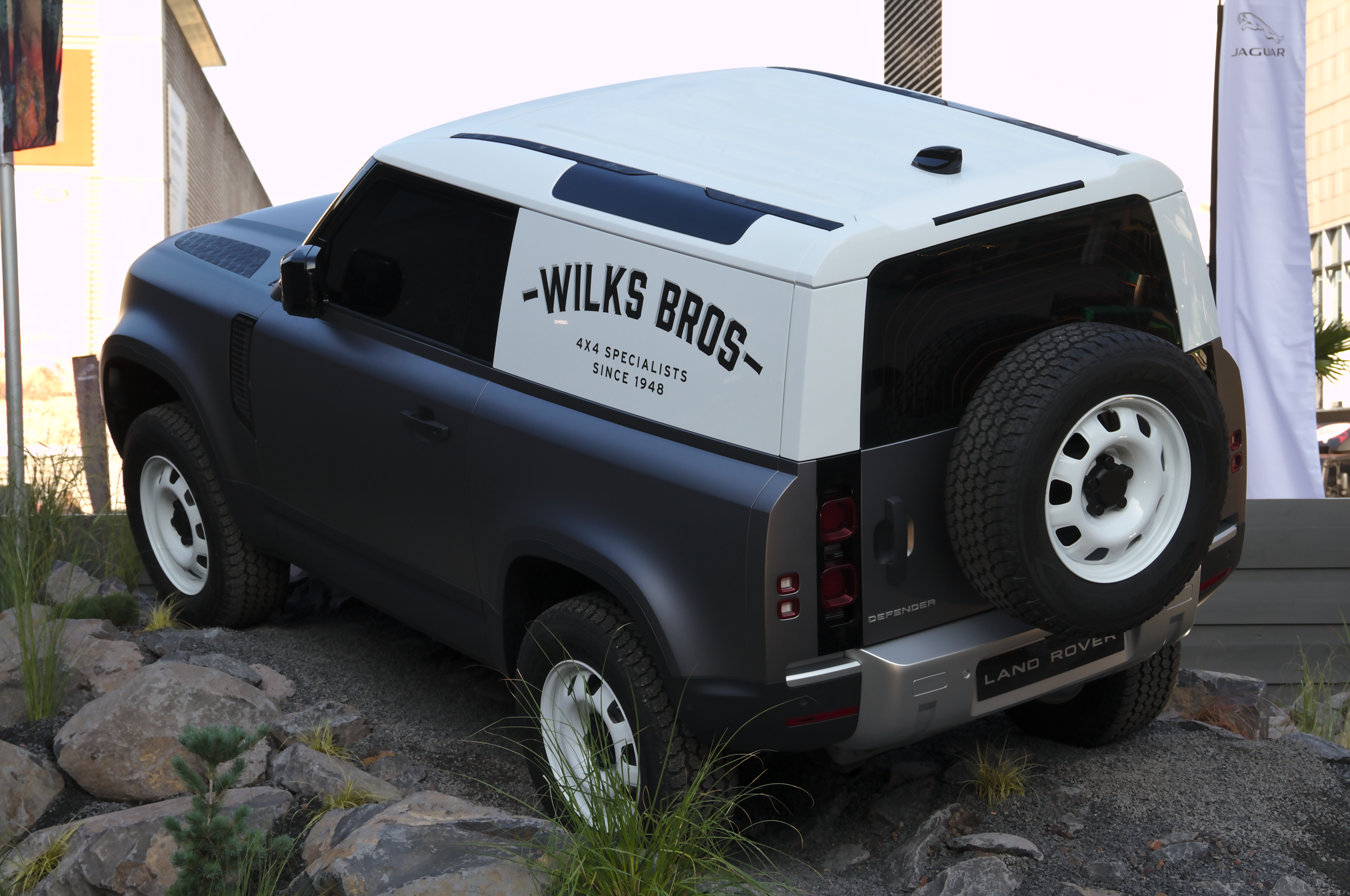 Land_Rover_Defender_(L663) at IAA 2019